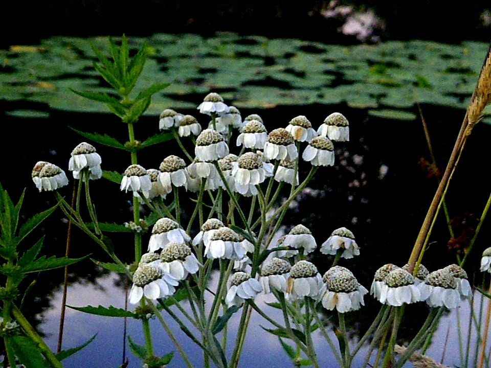 IJsbaan late in the Dutch city of Wierden, NL